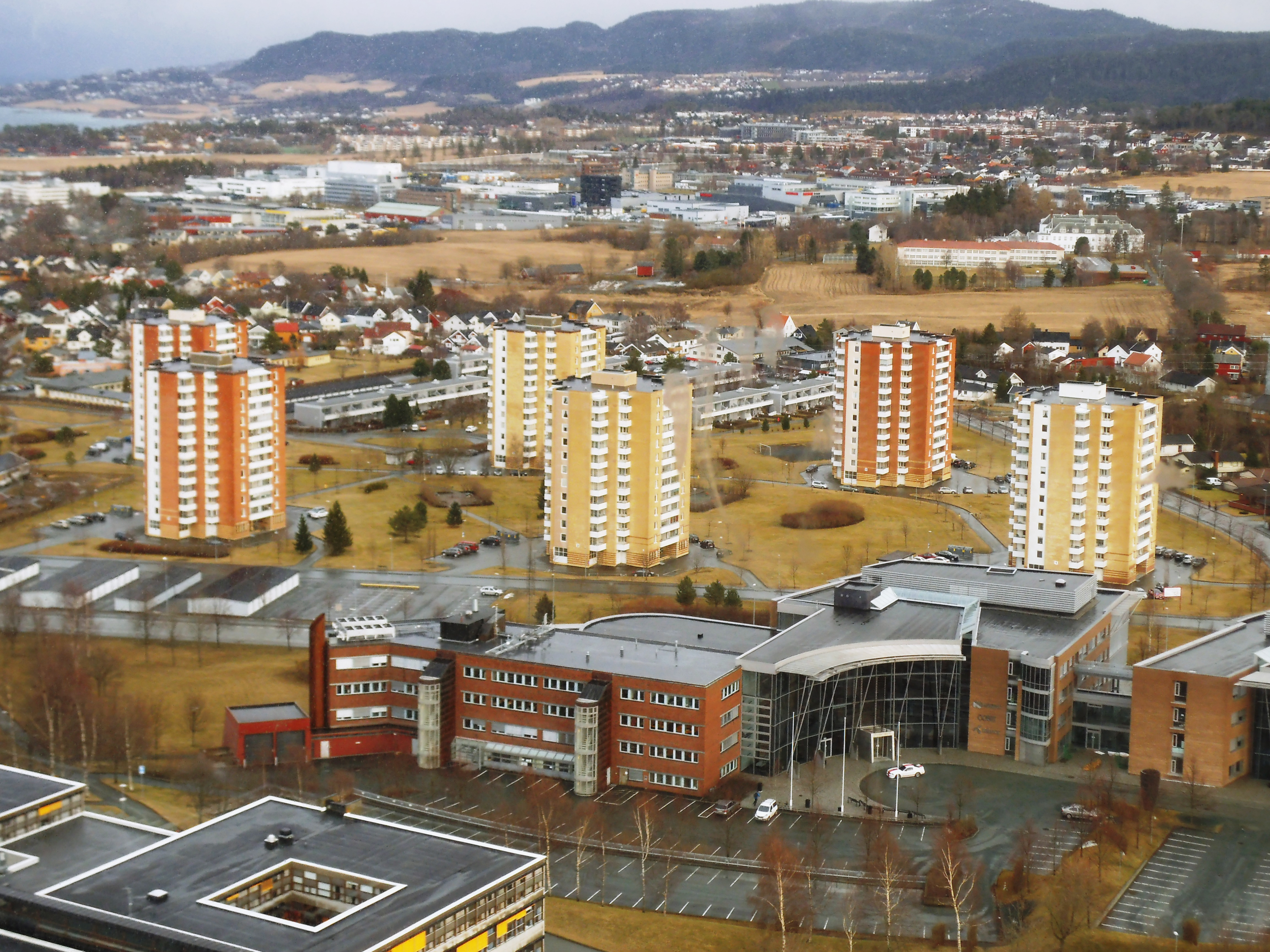 Valentinlyst i Trondheim